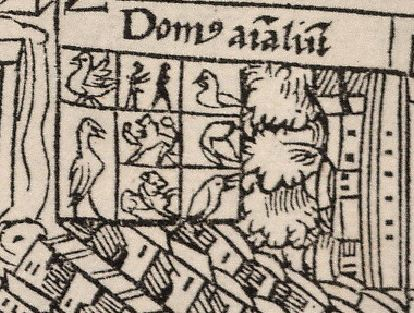 House of animals ("Domus animalium" in Latin) owned by Aztec emperor Moctezuma II in his capital city of Tenochtitlan. The image is a detail of the map of Temixtitan published in Nüremberg in 1524, most likely from an original by Spanish conqueror Hernán Cortés.